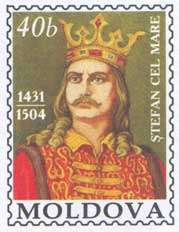 Stamp of Moldova